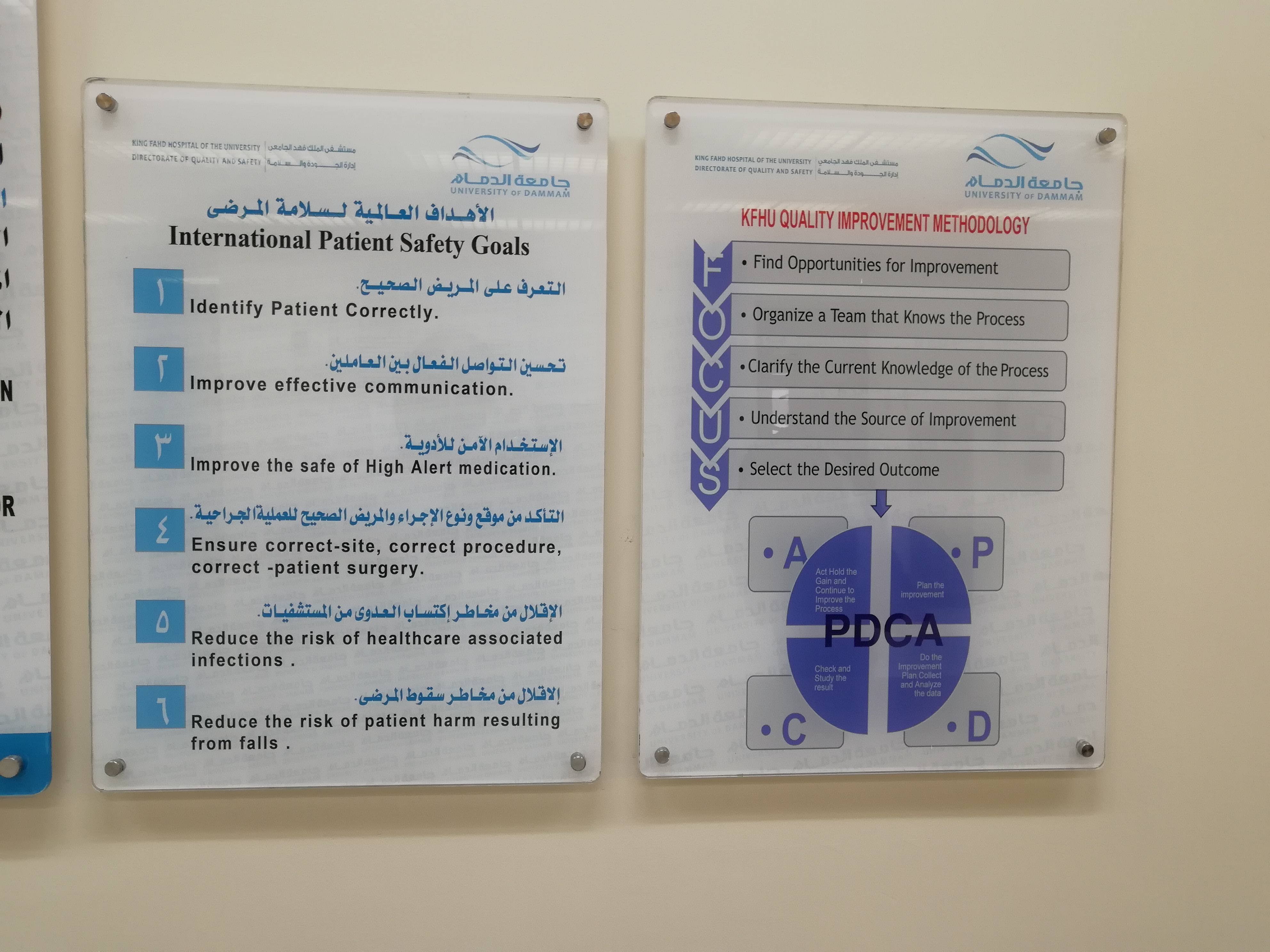 Quality improvement method